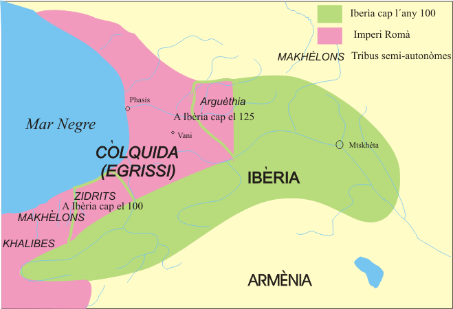 Kindom of Iberia, 100 AD